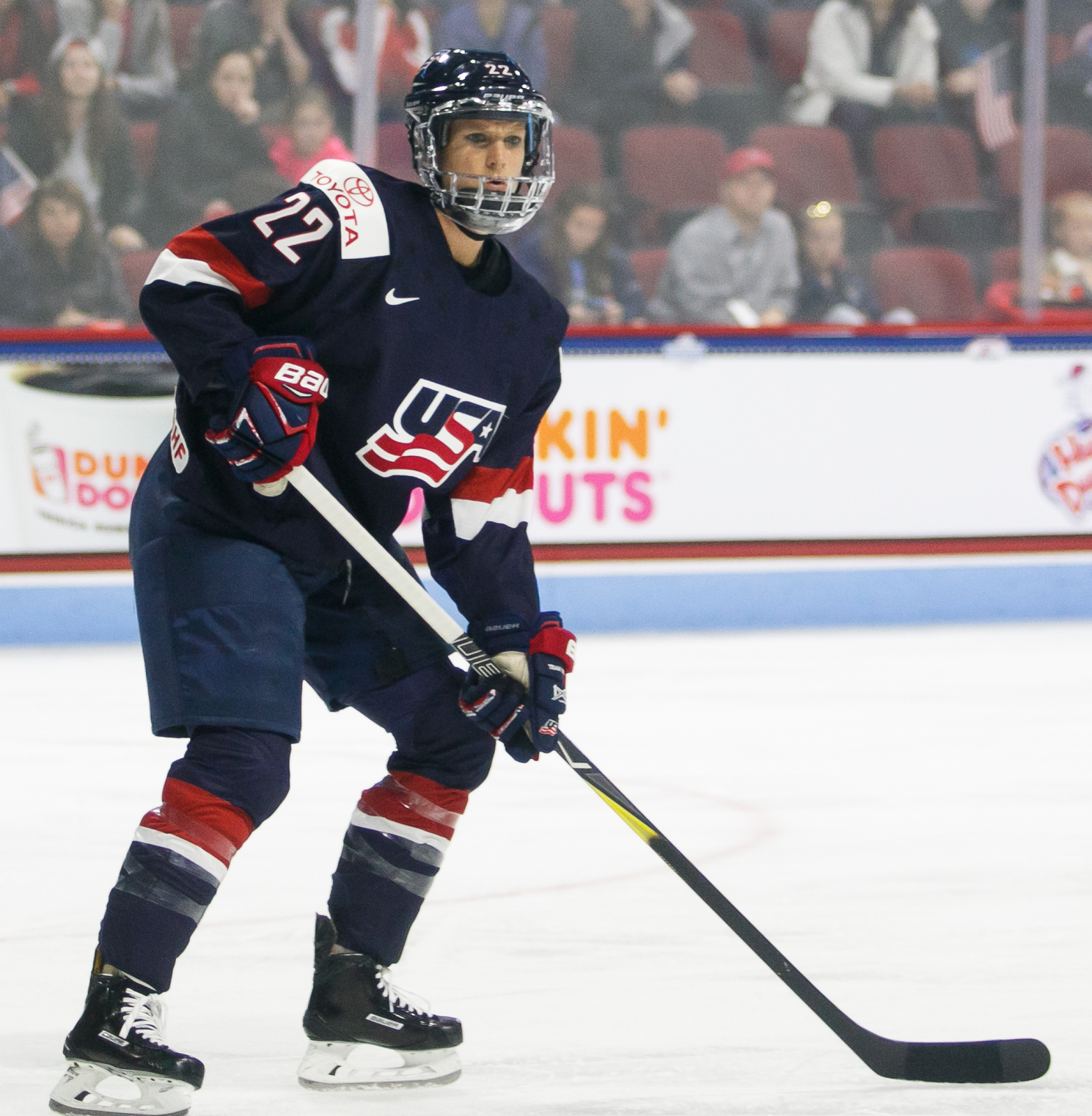 Kacey Bellamy playing for Team USA in 2017